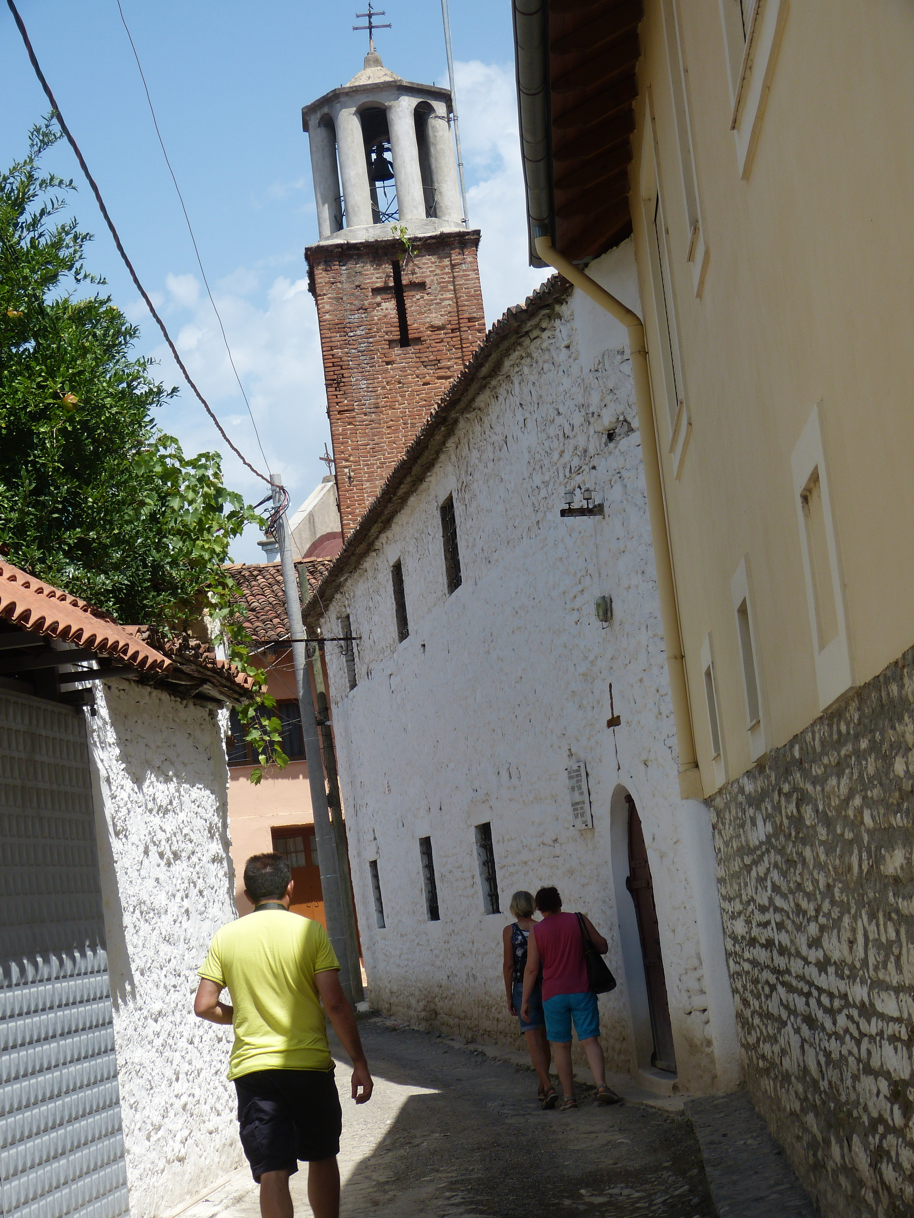 Elbasan ( Albania ). Saint Mary`s church ( 1833 ): Tower.